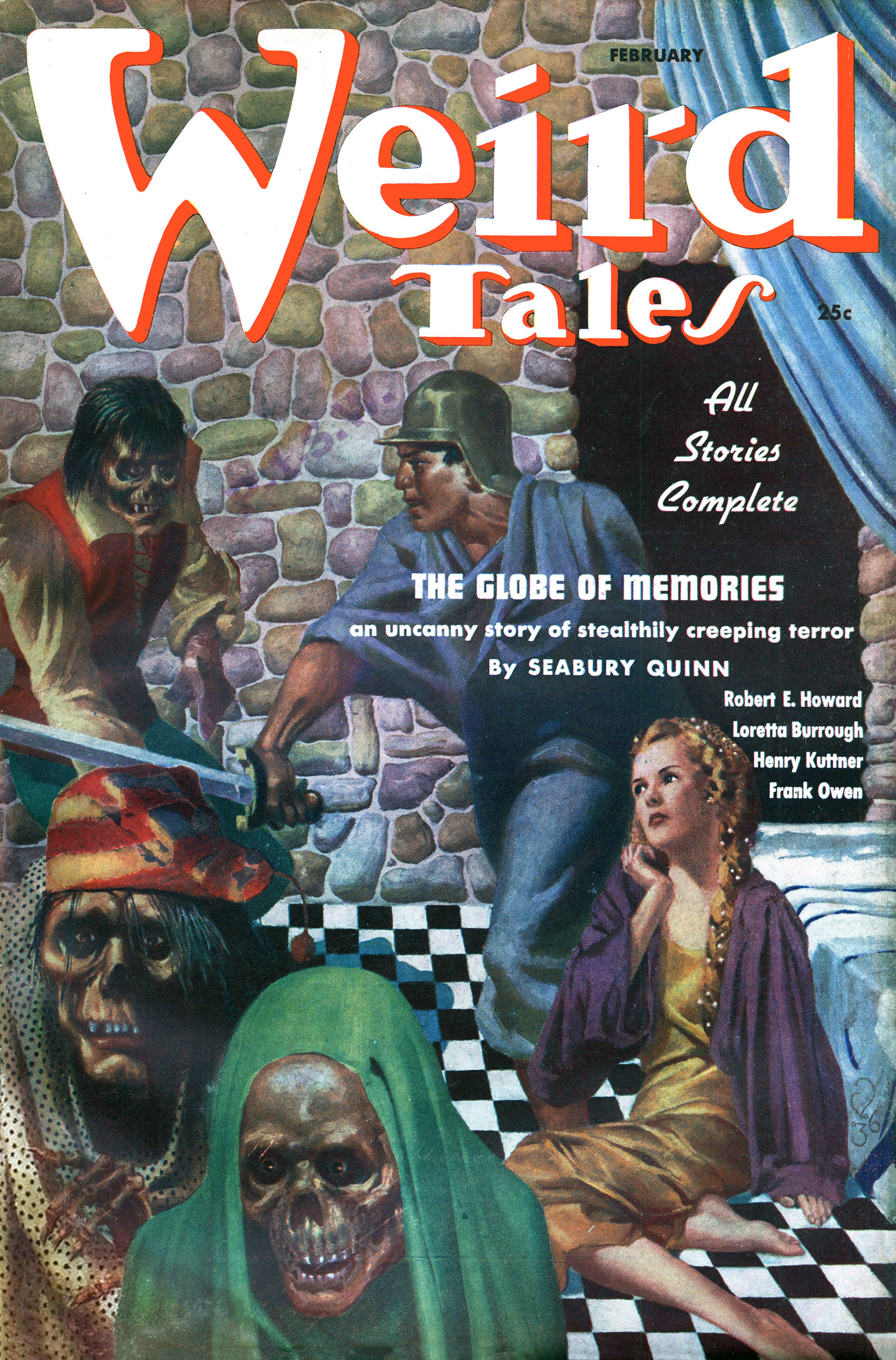 Cover of the pulp magazine Weird Tales (February 1937, vol. 29, no. 2) featuring The Globe of Memories by Seabury Quinn. Cover art by Virgil Finlay.